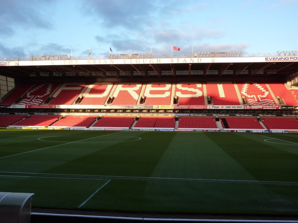 The Briang Clough stand.